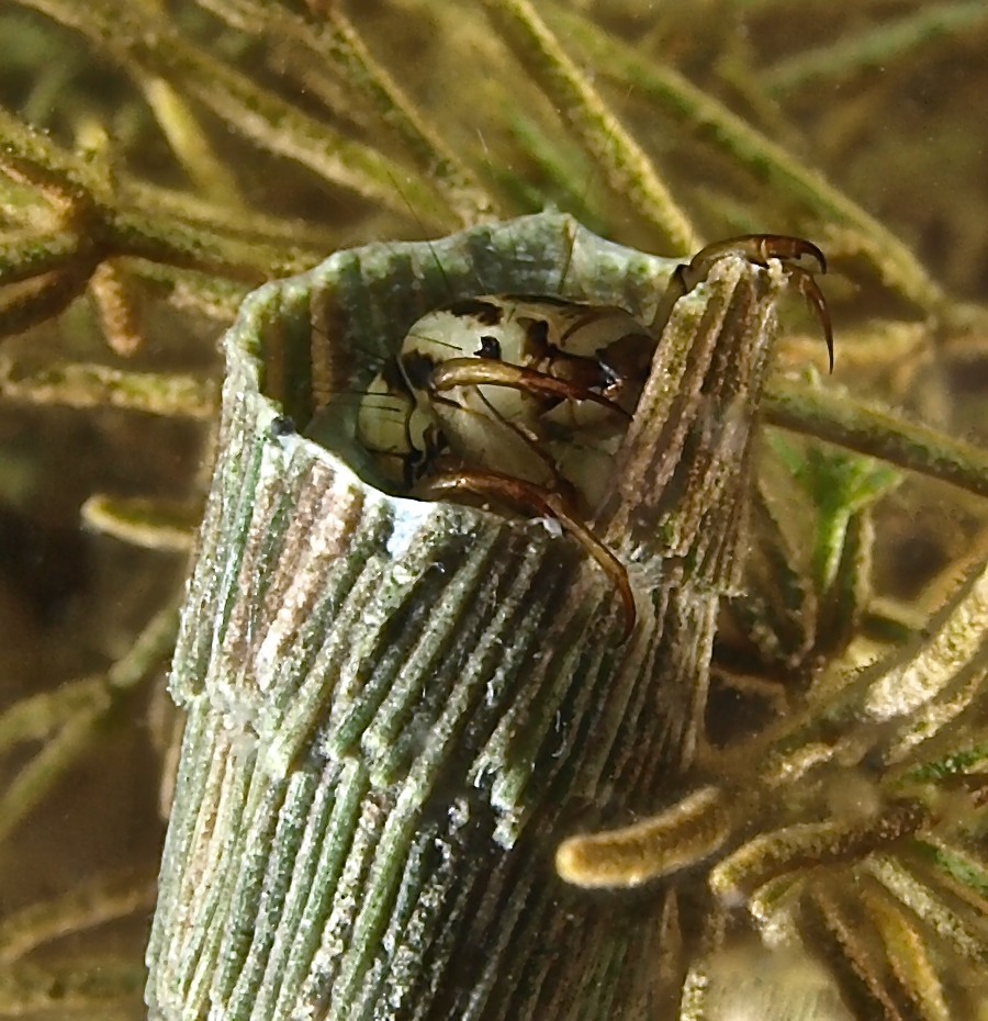 Caddisfly